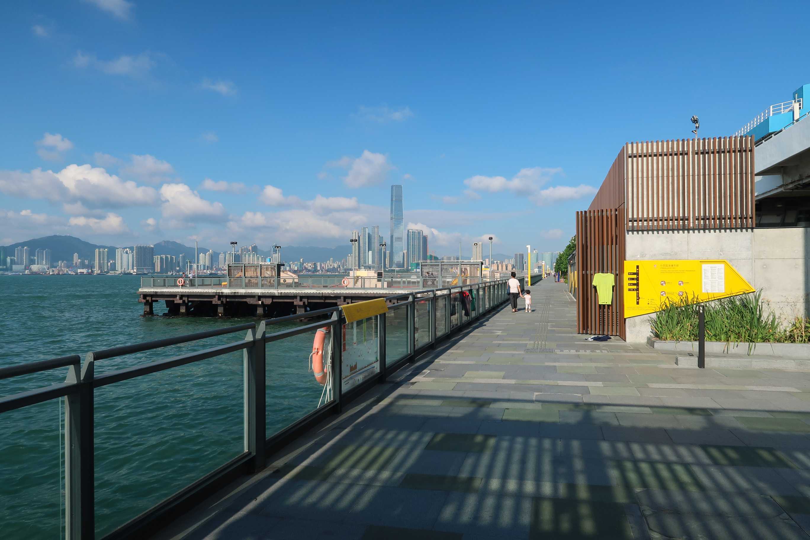 Central and Western Promenade, Sai Ying Pun